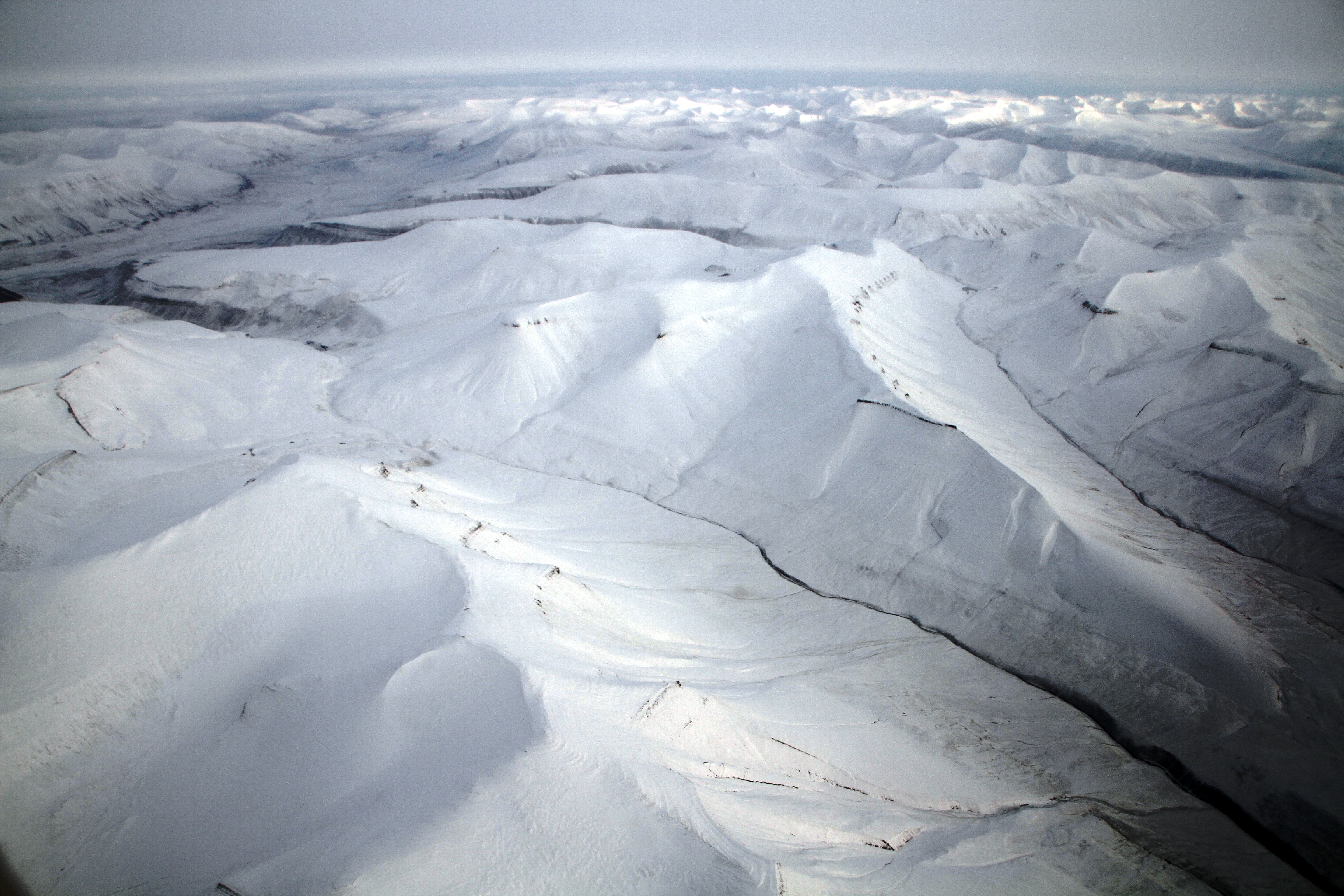 Aerial view of the central parts of Nordenskiöld land, between Isfjorden and Van Keulenfjorden. Spitsbergen, Svalbard (Norway).